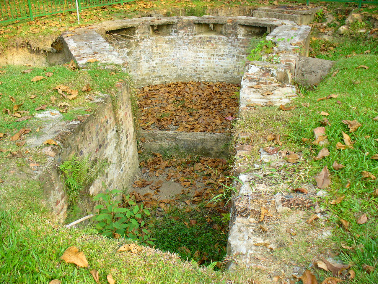 An excavated infantry bastion of Fort Tanjong Katong, in Katong Park, Singapore.